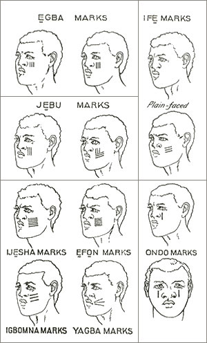 Yoruba stripes